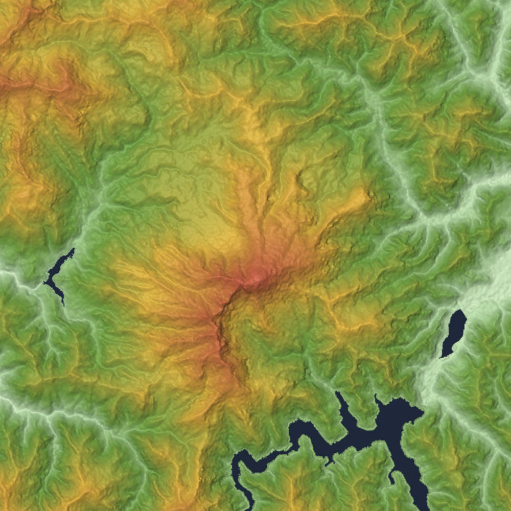 Massif of Asakusa volcano (aka. Asakusadake and Mount Asakusa) in the boeder of Niigata and Fukushima Prefectures, Honshu, Japan.